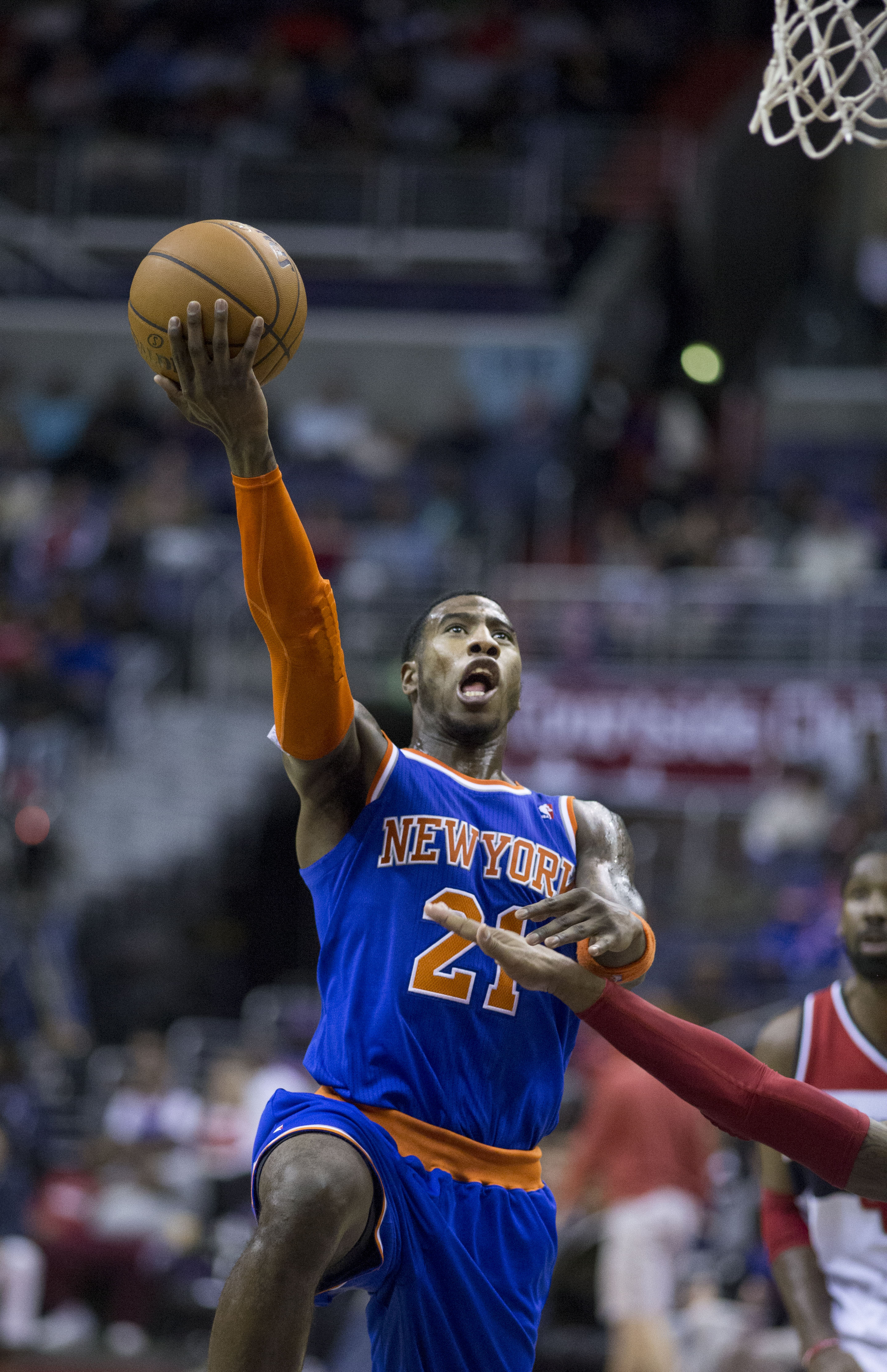 Knicks at Wizards 11/23/13